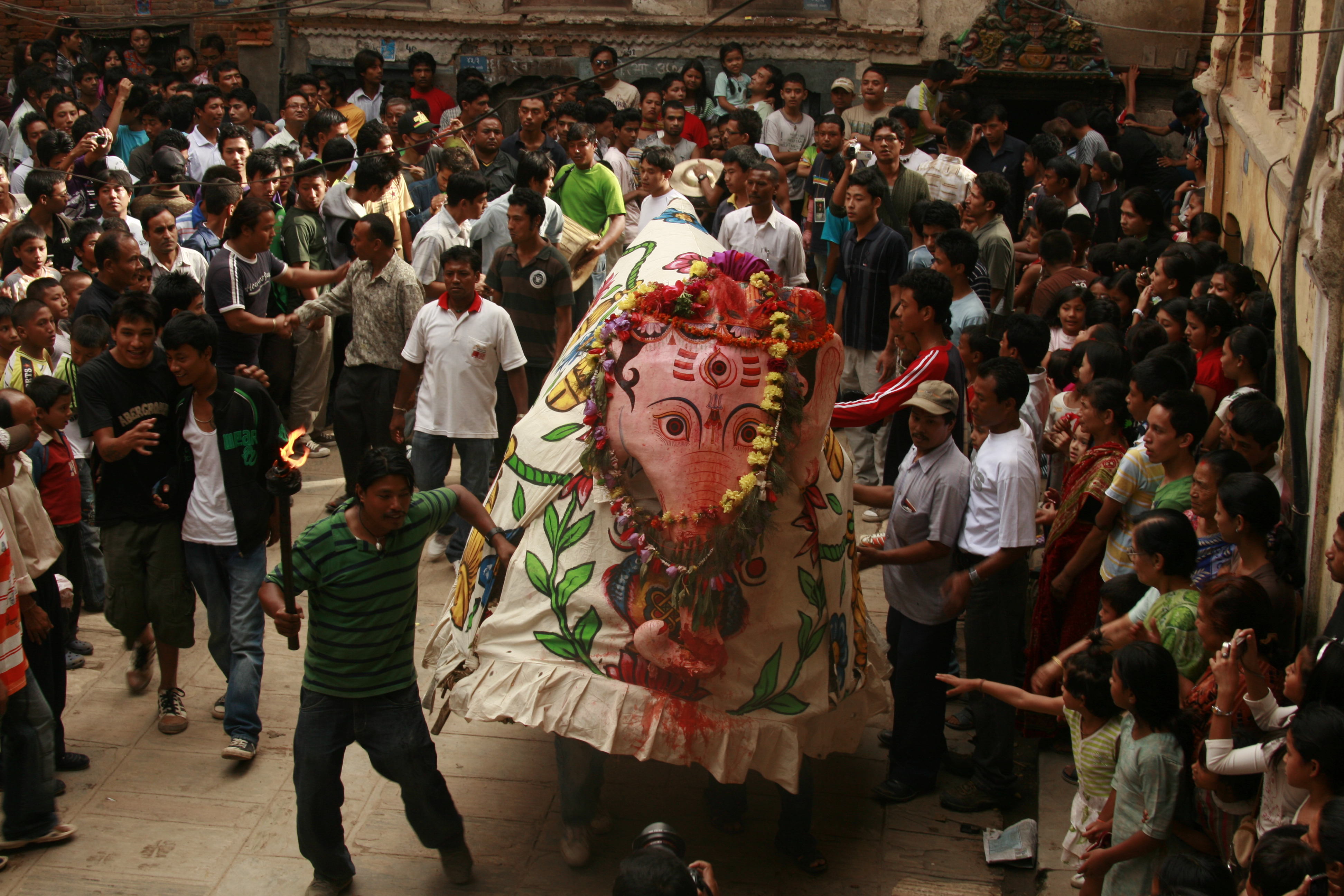 Pulu kishi dancing in lakhe nani during indra jatra